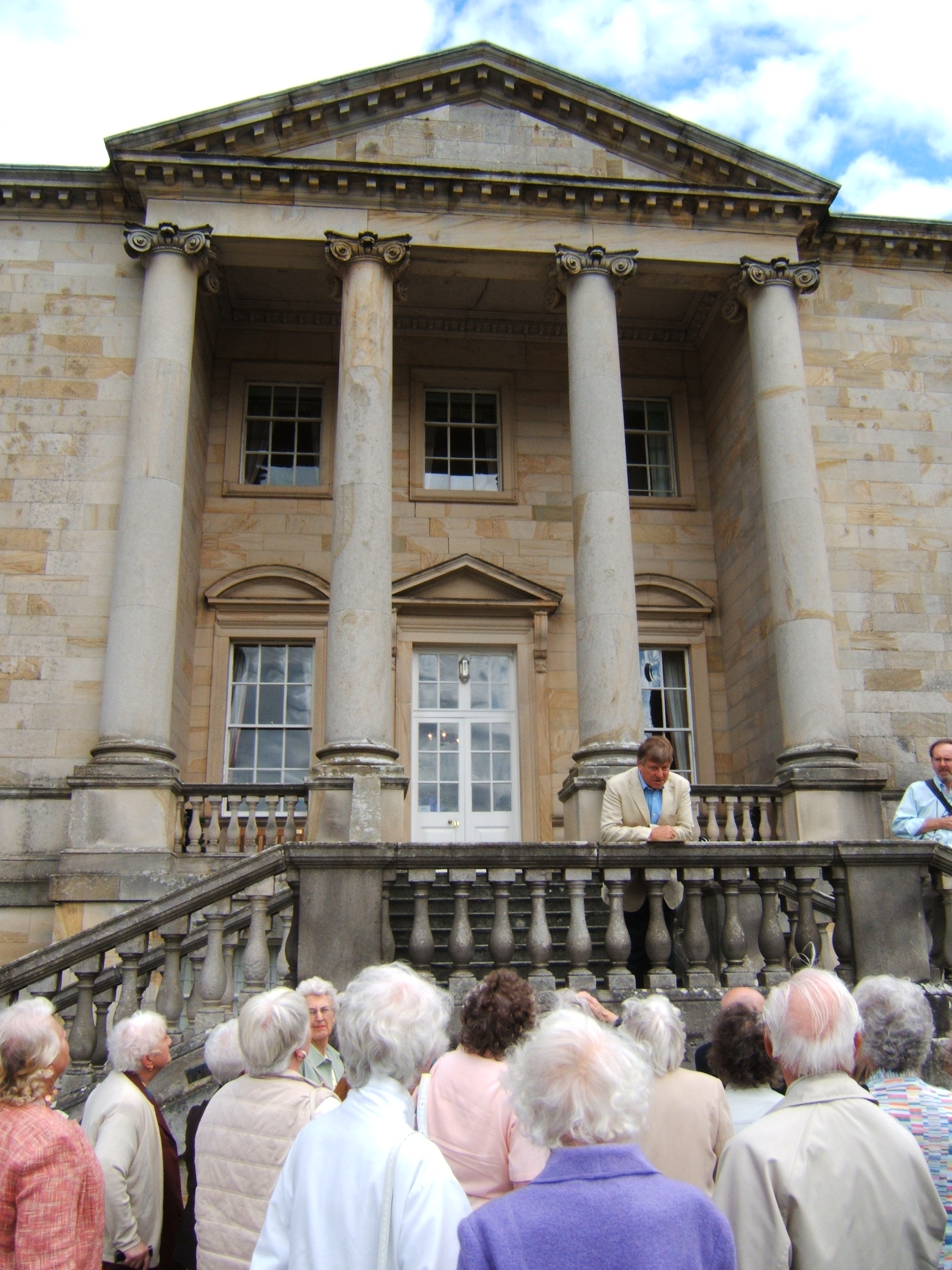 Mr Wyvill addressing the East Yorkshire Georgian Society from the steps of Constable Burton Hall on 10 August 2006. Digital photograph by Austen Redman.